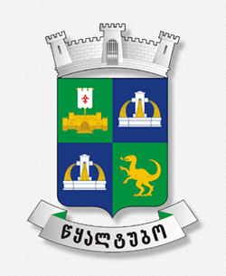 Coat of arms of Tsqaltubo municipality